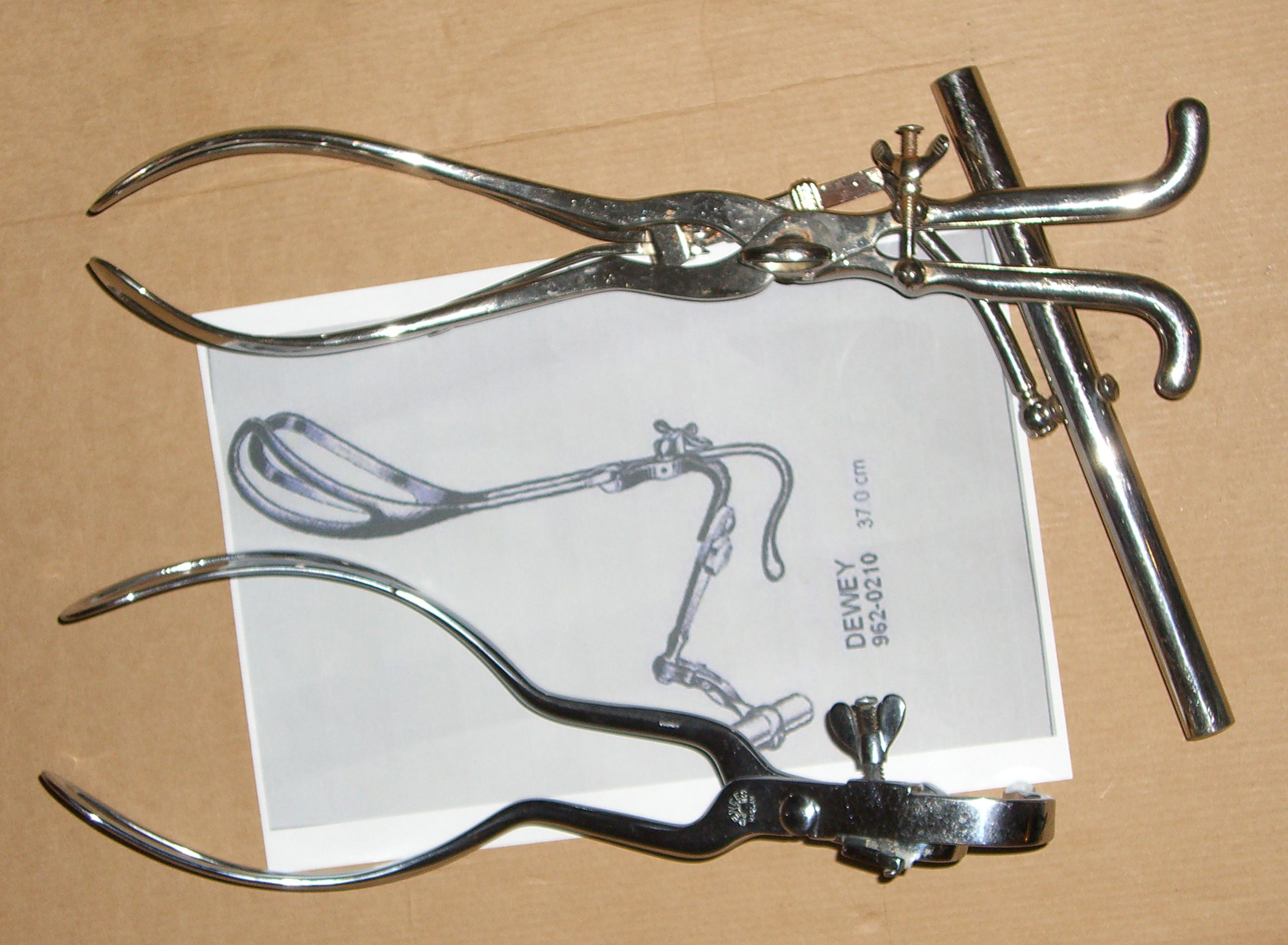 Obstetrical forceps; forceps with axis-traction handle; models: TARNIER forceps, 1877 (model shown from the 1950') and DEWEY forceps around 1900 (derivated from french Tarnier and scottish Milne-Murray 1891)